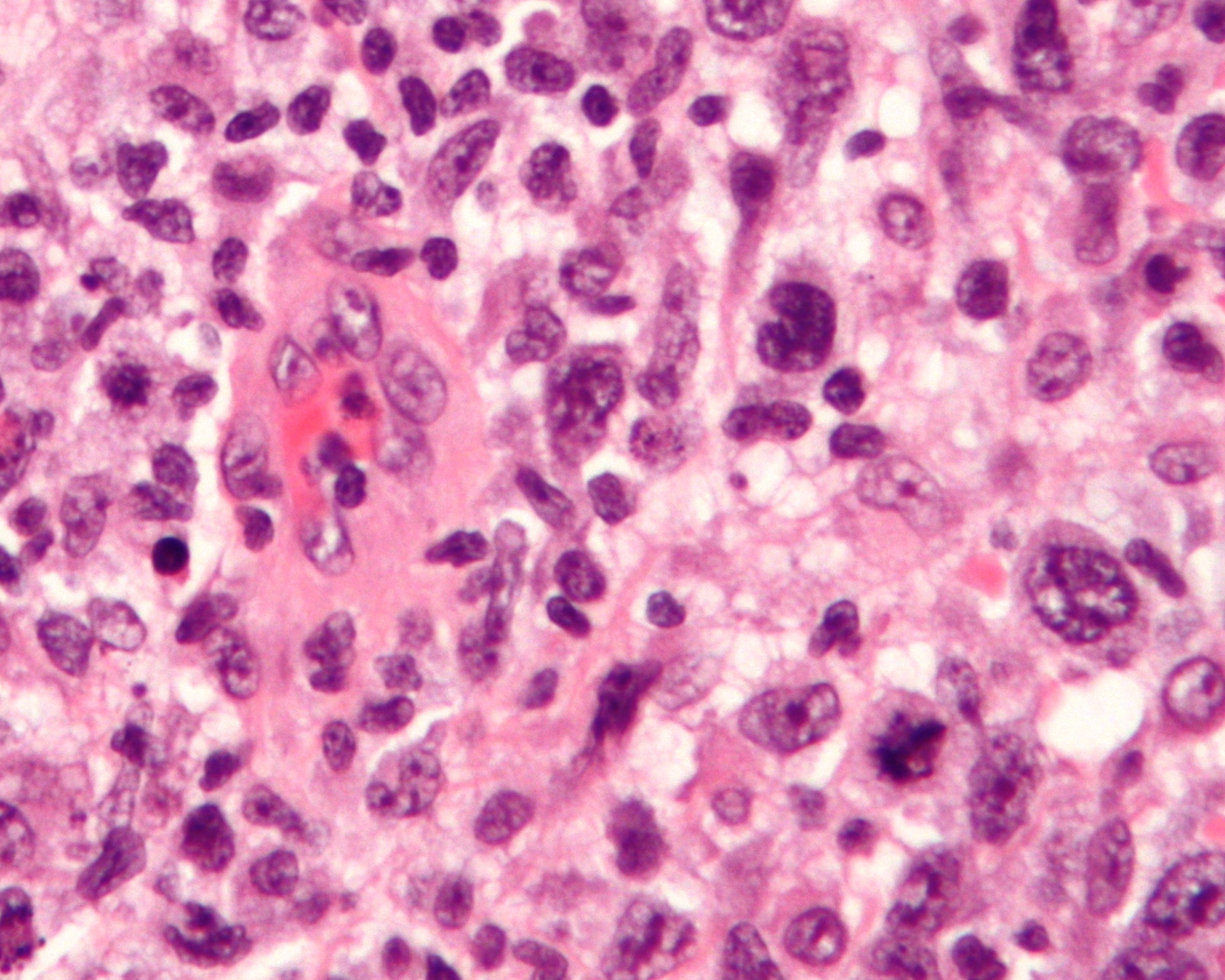 Very high magnification micrograph of an anaplastic large cell lymphoma. H&E stain. Related images High mag. Very high mag. Very high mag. (cropped)